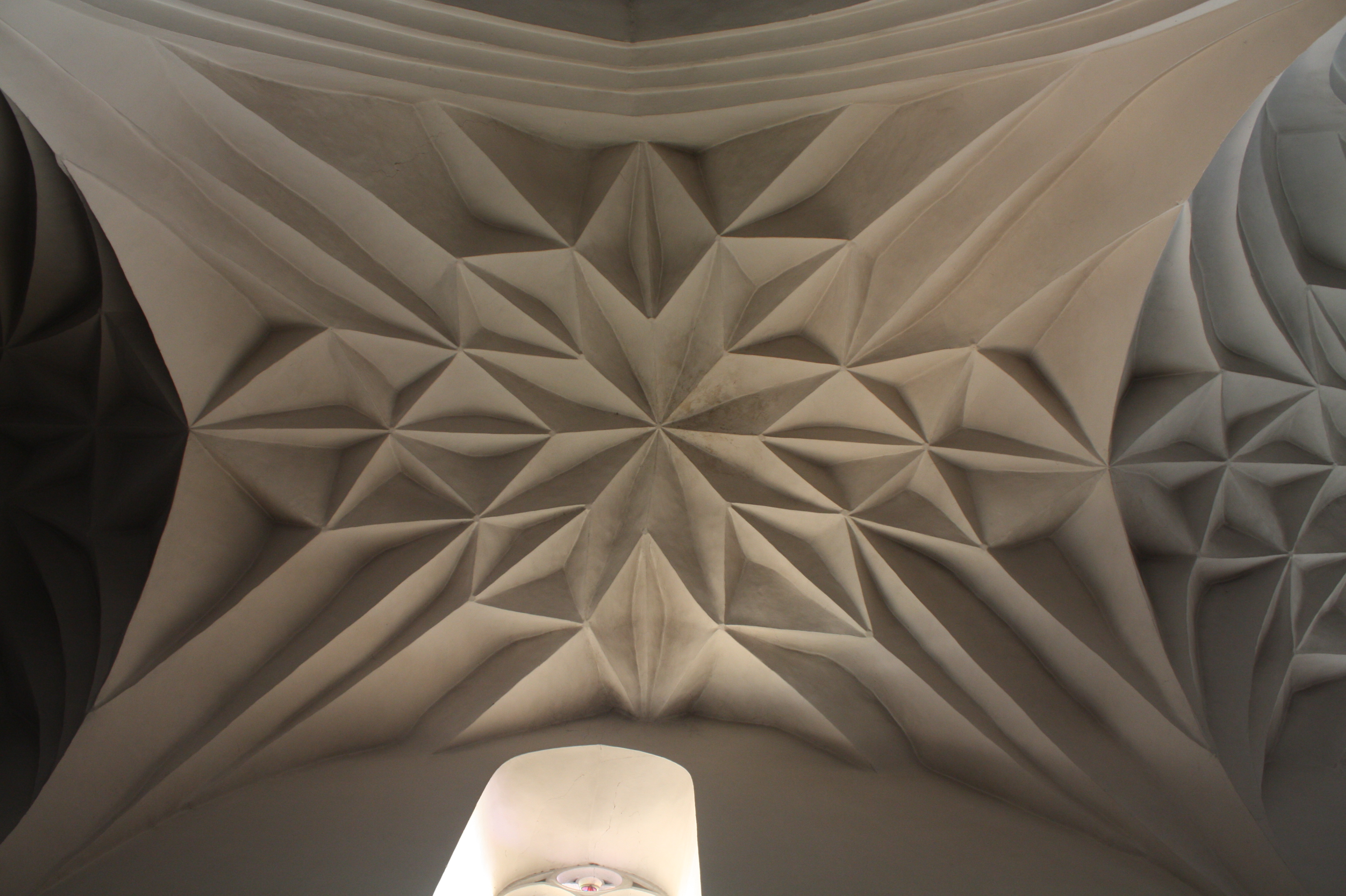 This photo of Warmian-Masurian Voivodeship was taken during Wikiexpedition 2012 set up by Wikimedia Polska Association.You can see all photographs in category Wikiekspedycja 2012. The making of this document was supported by Wikimedia Polska.